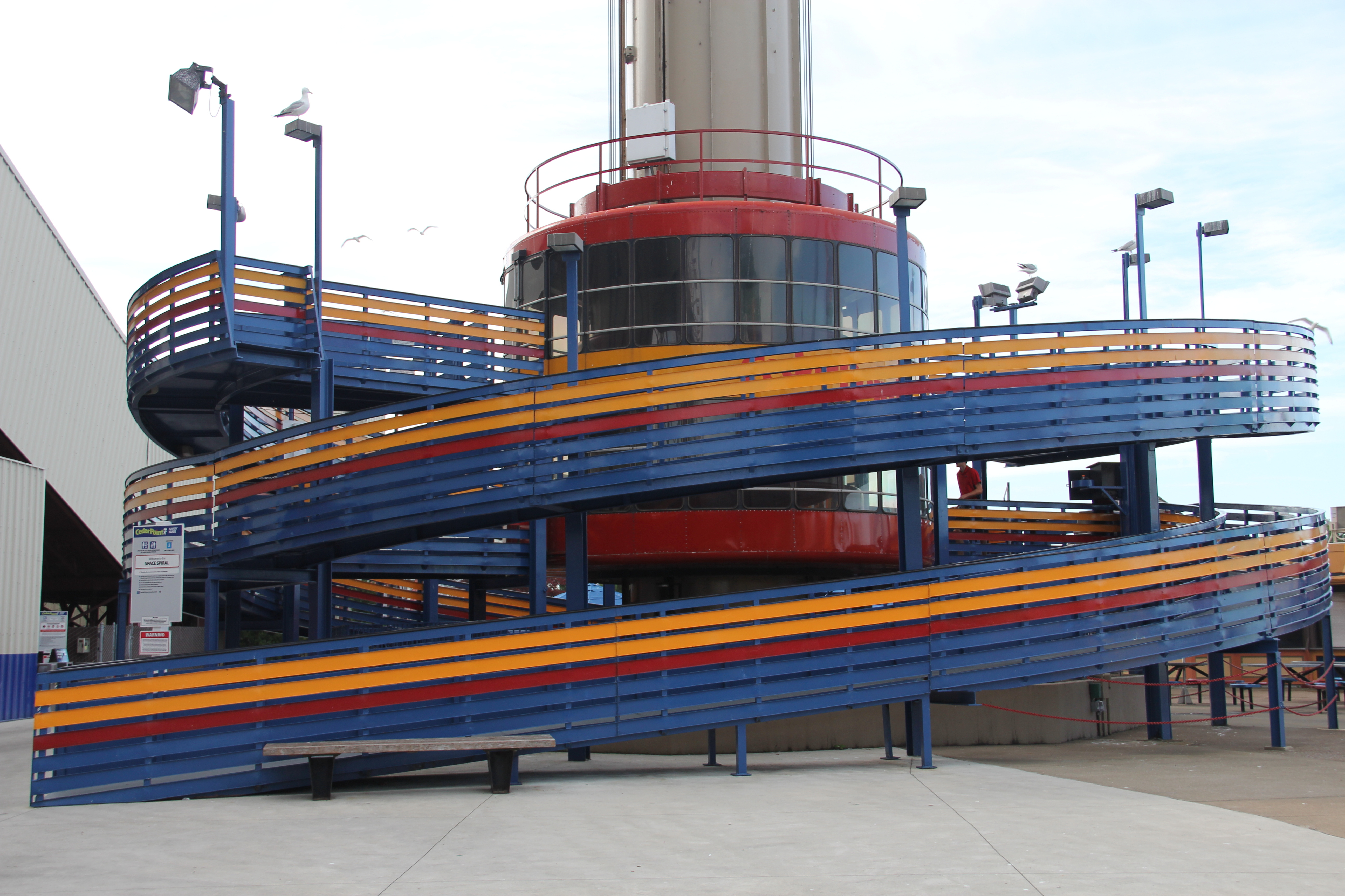 Space Spiral cabin at ride's station at Cedar Point.